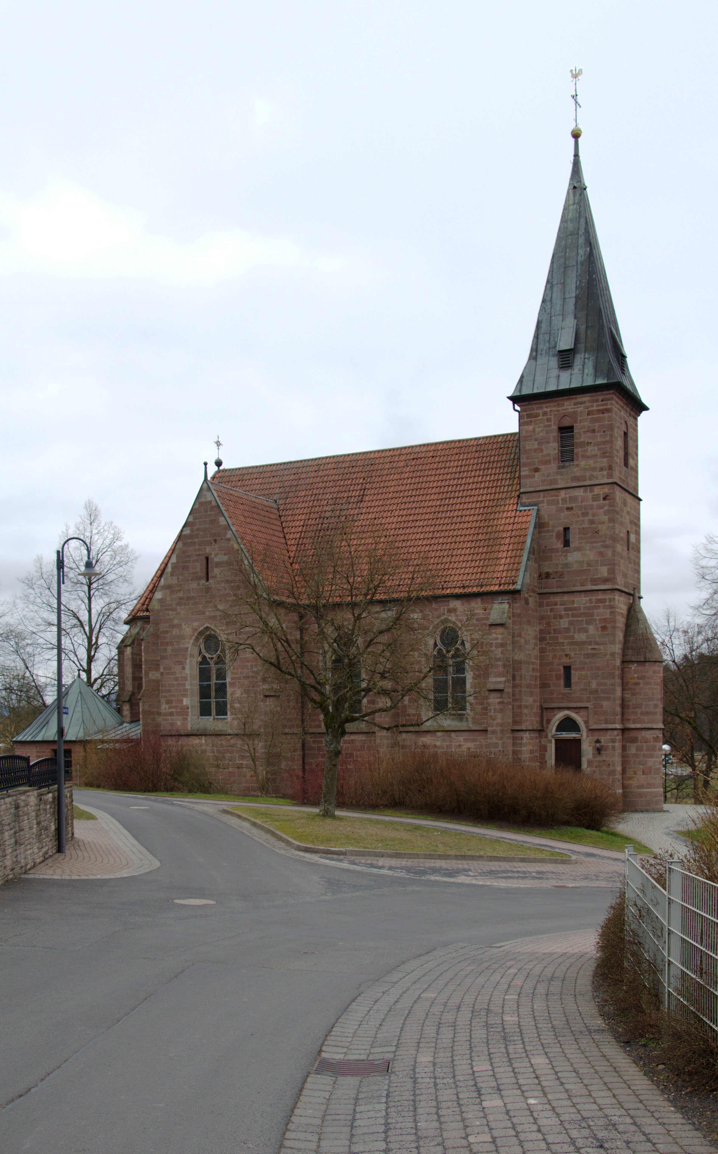 Catholic Church St. Anna in Dietershan, Fulda, Hesse, Germany